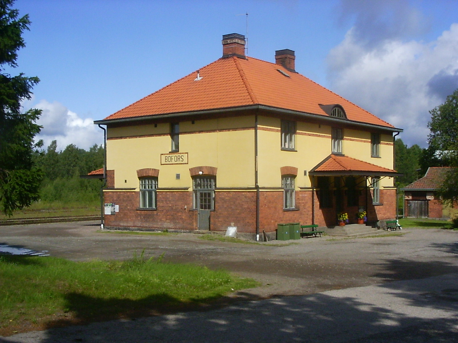 Bofors railway station, Karlskoga